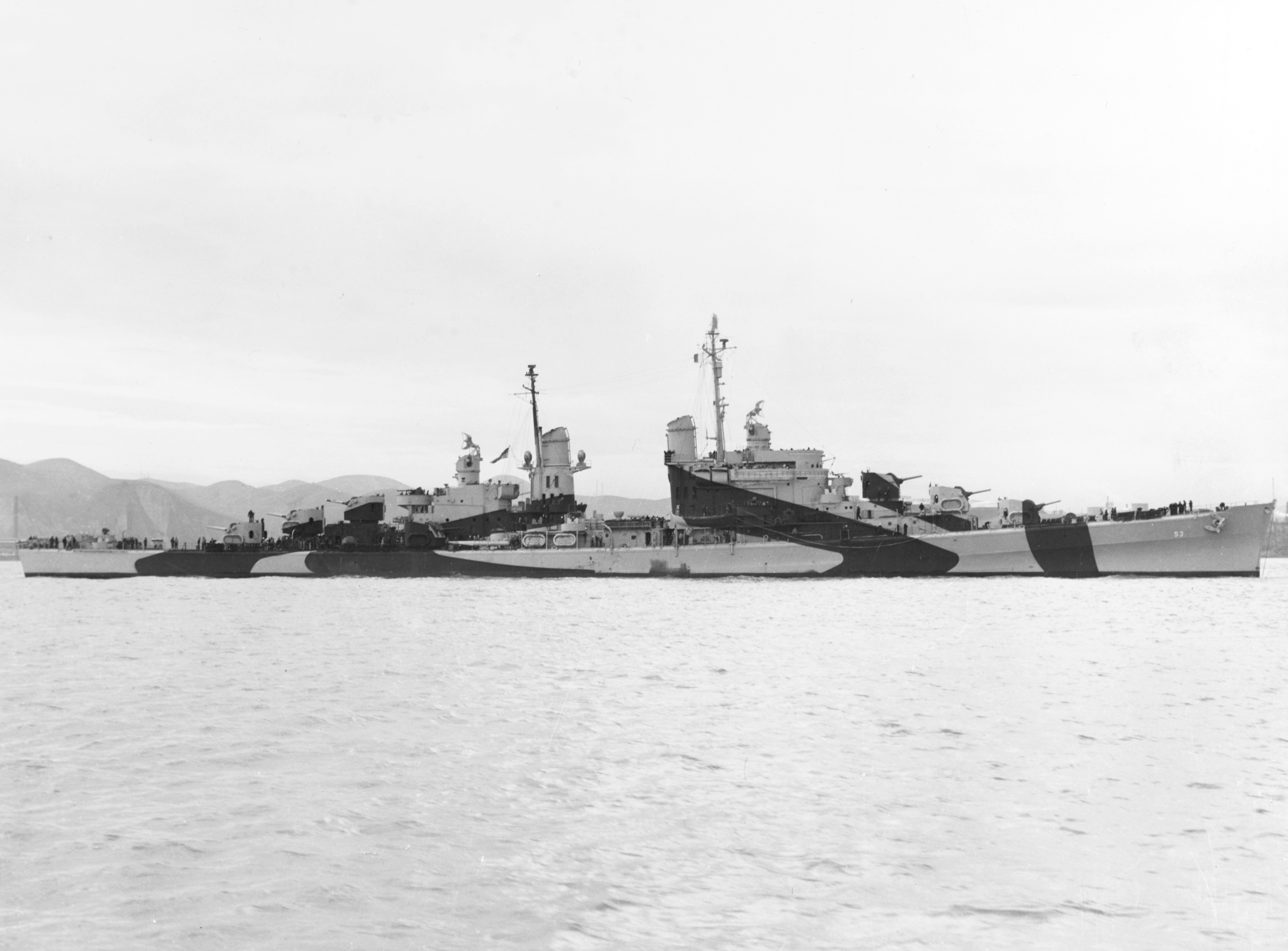 The U.S. Navy light cruiser USS San Diego (CL-53) off the Mare Island Naval Shipyard, California (USA), on 10 April 1944. Her camouflage design is Measure 33, Design 24D.